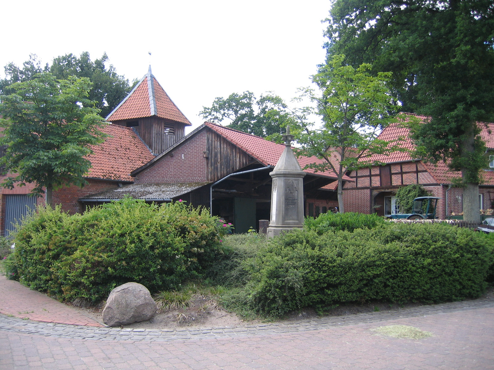 The war memorial at Wolthausen, Lower Saxony, Germany, commemorating the fallen from the Franco-Prussian, First and Second World Wars.